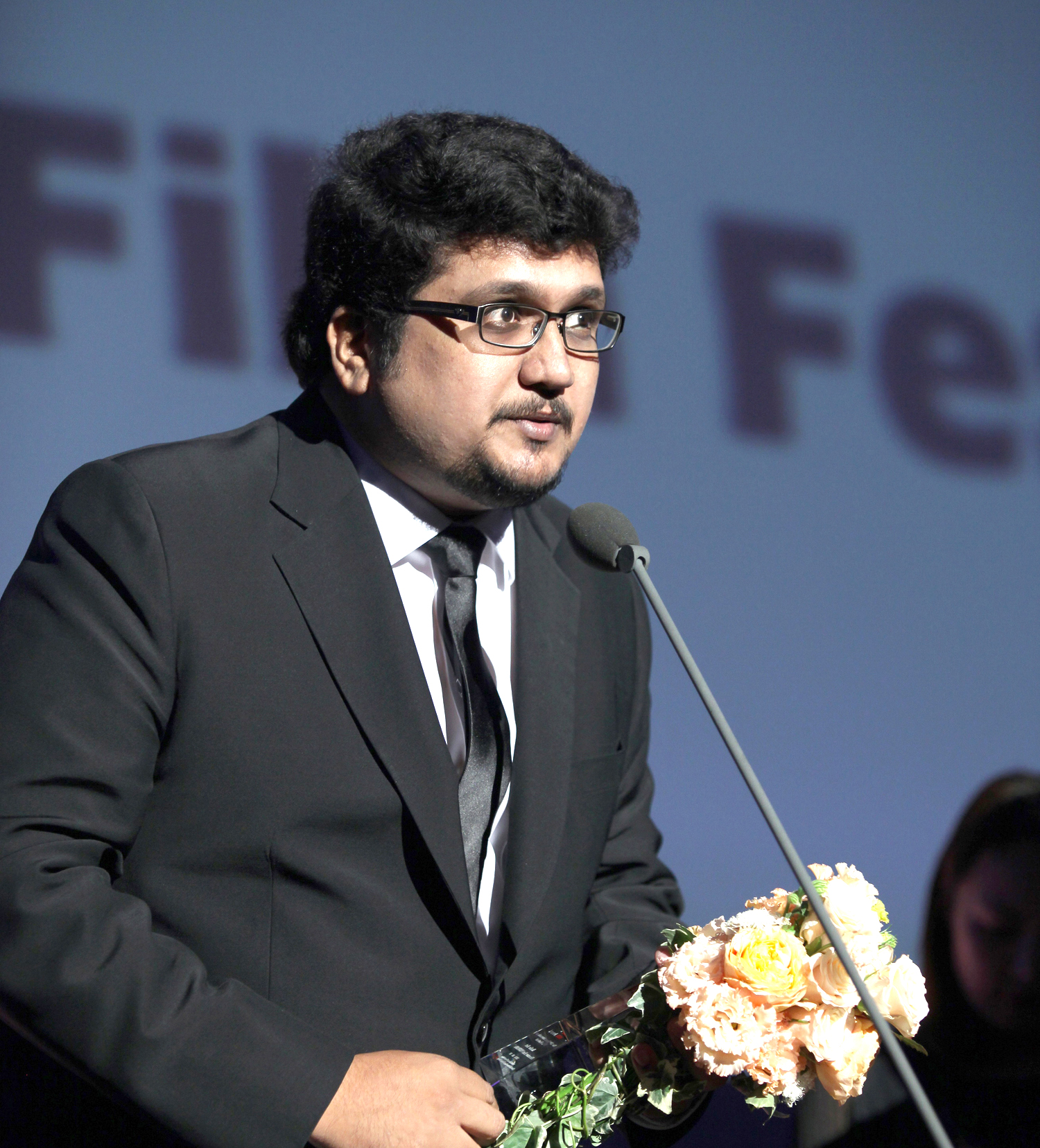 Director Hari Viswanath Speech at BIFF 2015